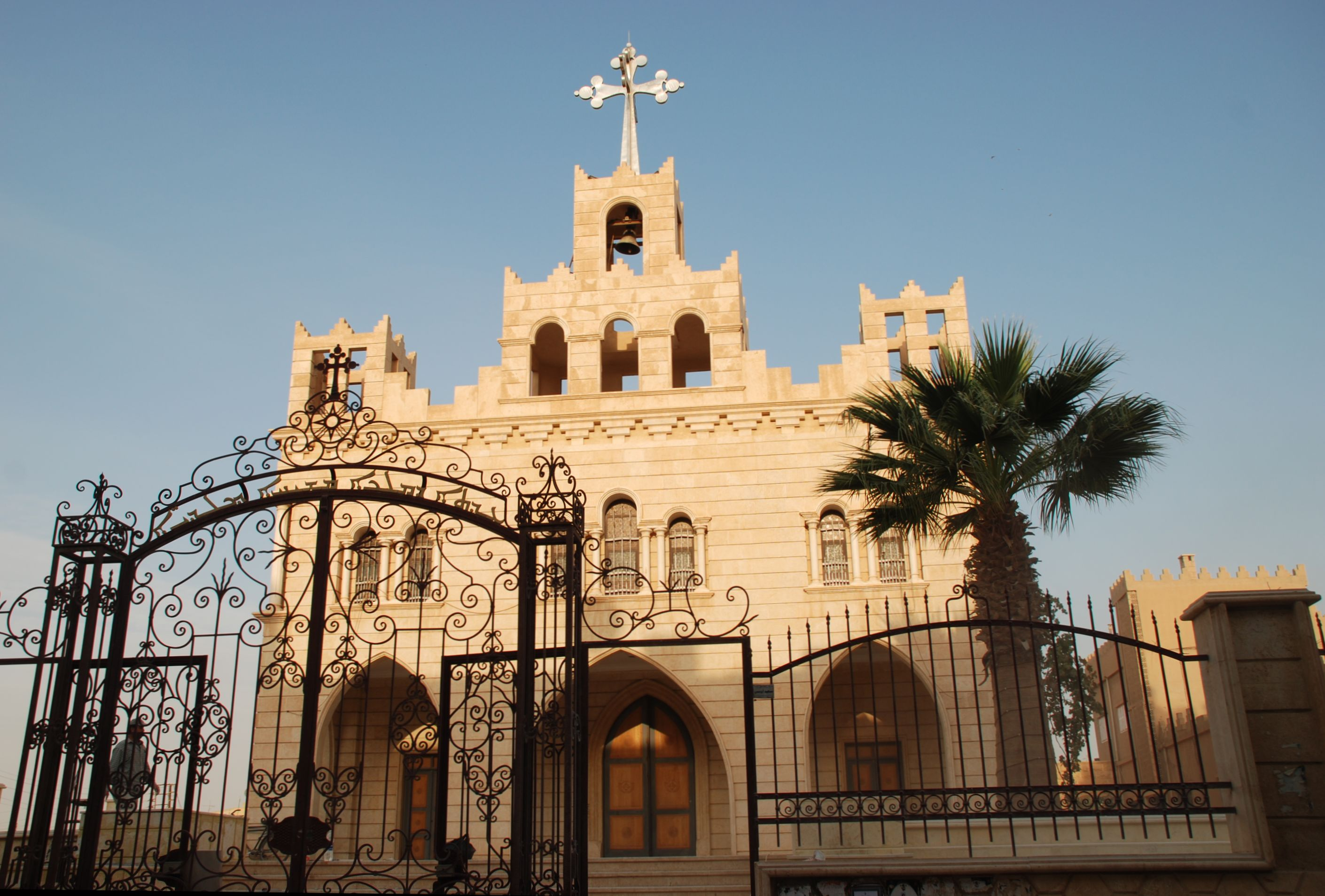 Al-Hasakah, Syria, orthodox church in centre